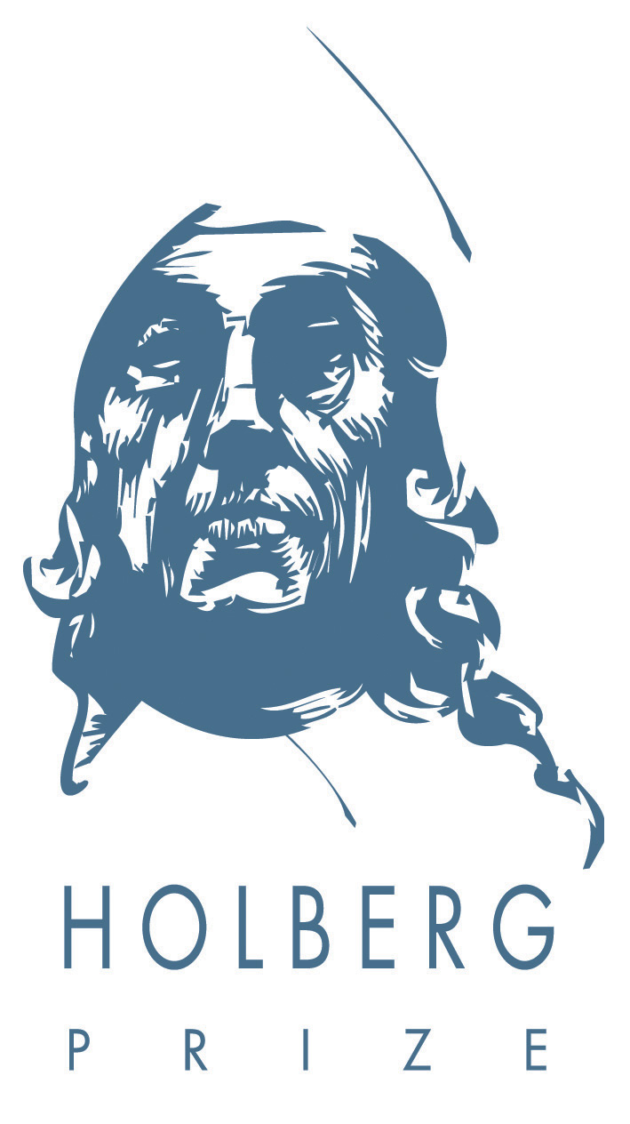 Holberg prize logo (english)